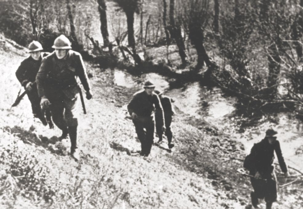 Polish solidiers during Battle of Kock (1939)